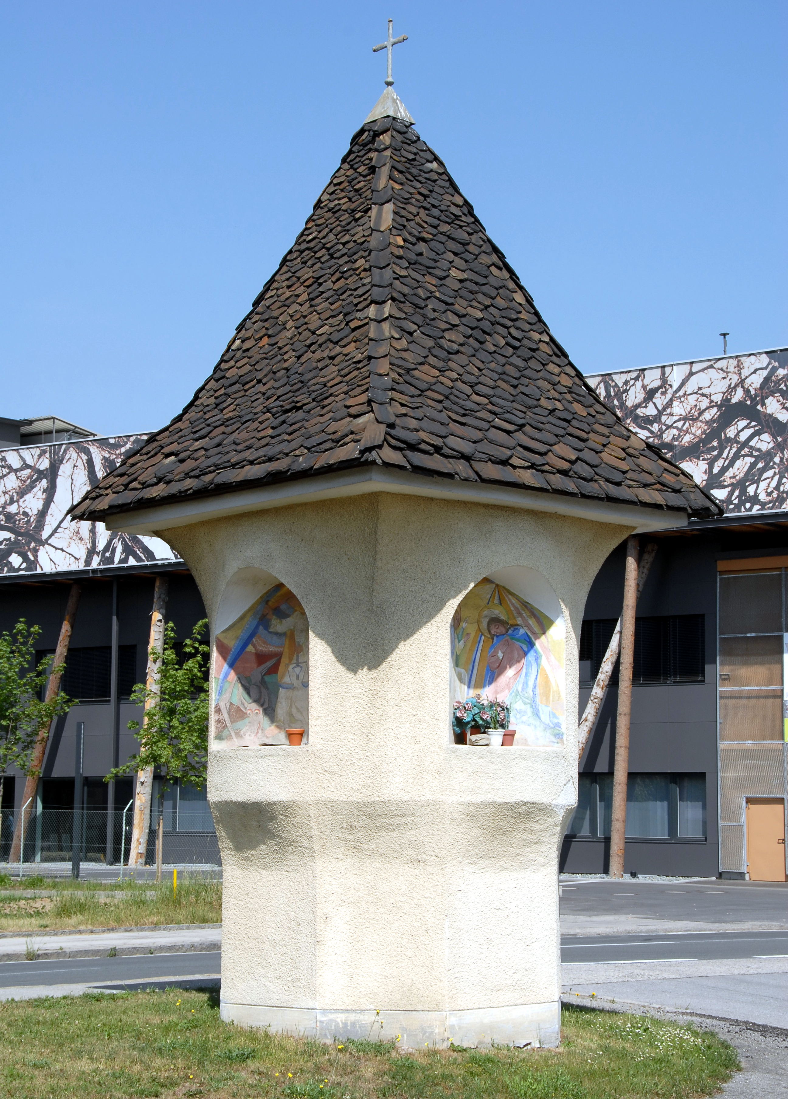 Niche shrine with stone plated roof at Glandorf in the community of Saint Veit by the Glan, Carinthia, Austria